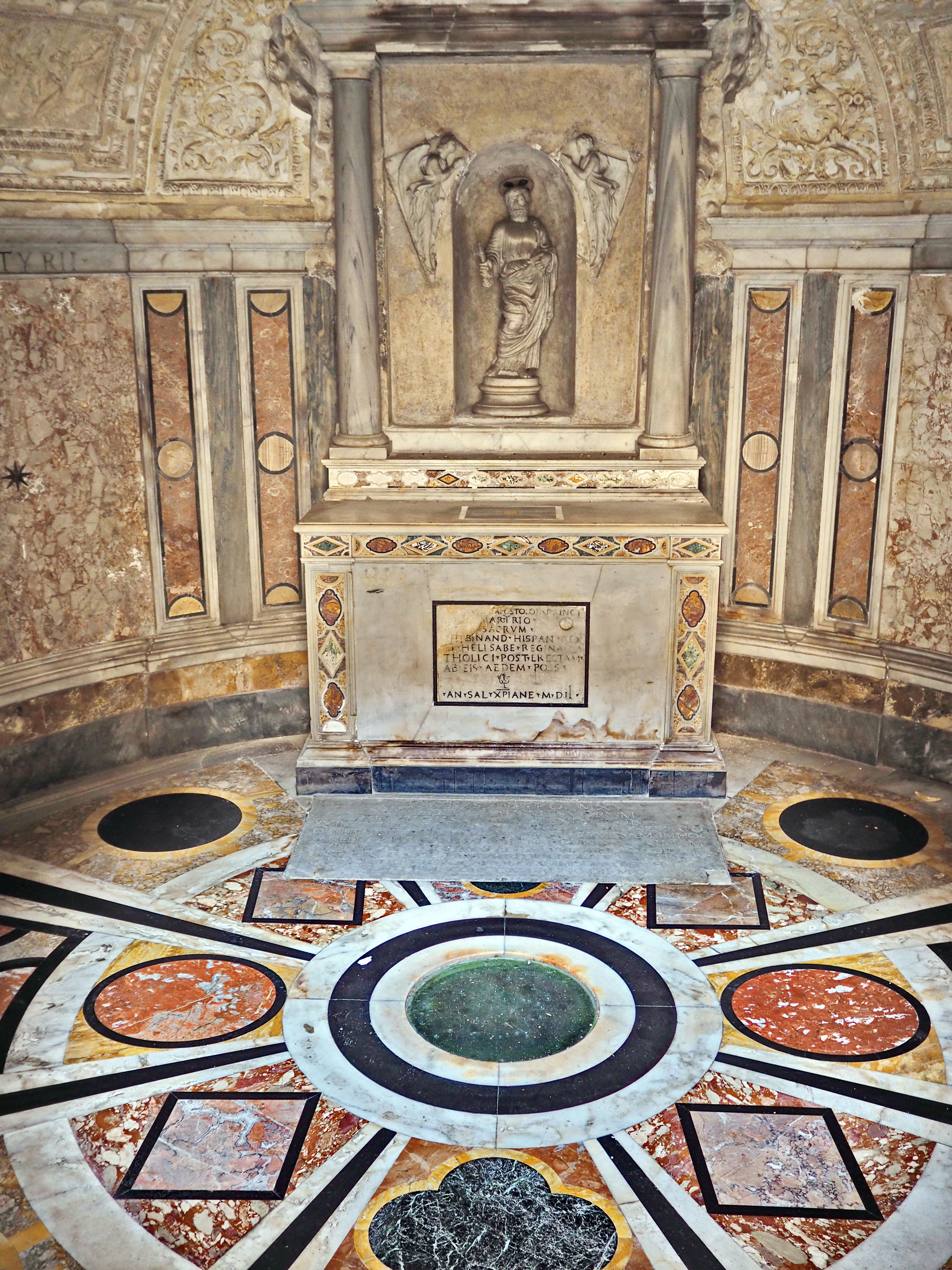 Tempietto del Bramante (Krypta)